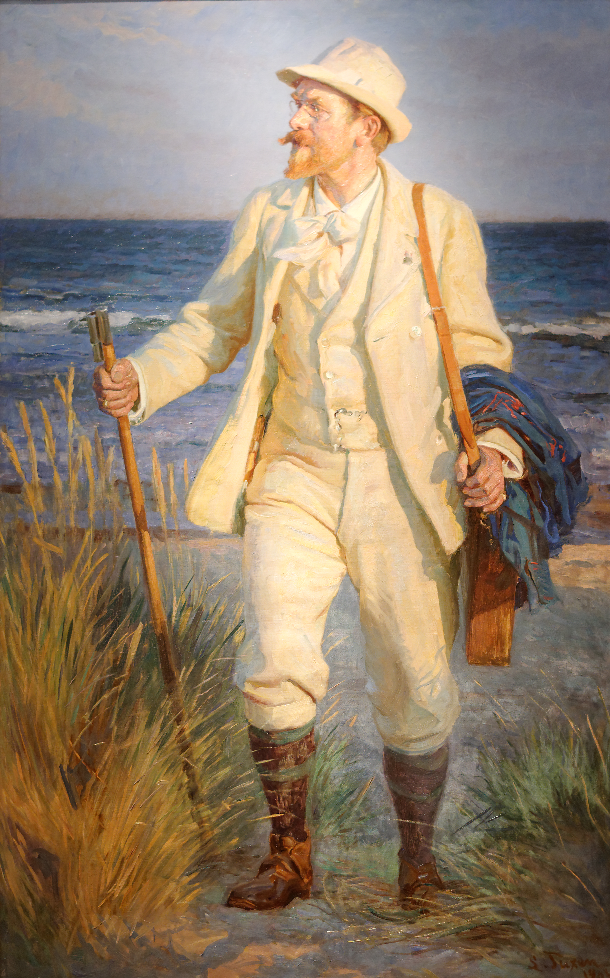 Portrait of the Danish painter Peder Severin Krøyer (1851-1909) by Laurits Tuxen, 1904. Museum of Fine Arts Budapest Inv.Nr 191 B. Acquired in 1907.